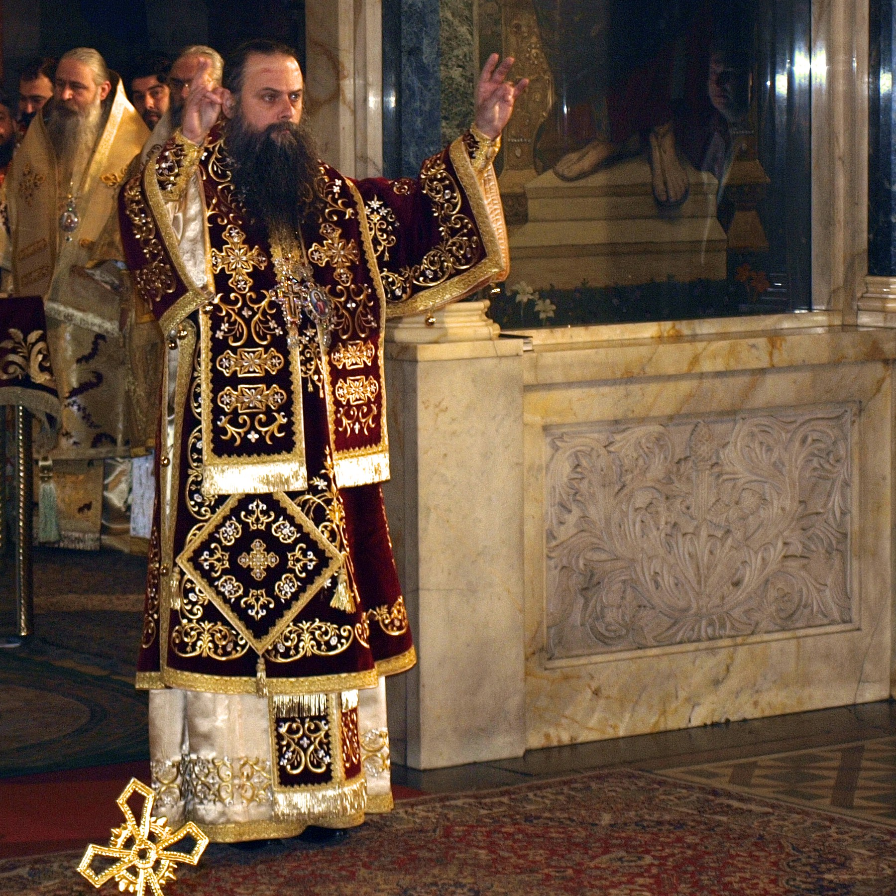 Nikolay - a bishop of Znepol (2001 - 2007) and Plovidv (since 2007).